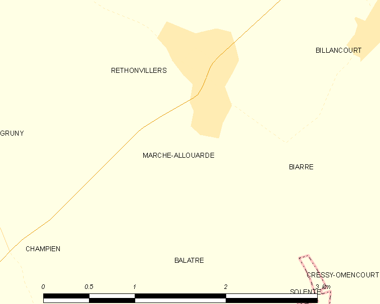 Map of French municipality Marché-Allouarde